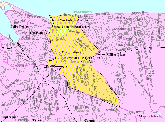 U.S. Census 2000 reference map for Mount Sinai